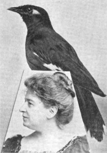 Portrait of Emma Cecilia Thursby with her Myna bird.